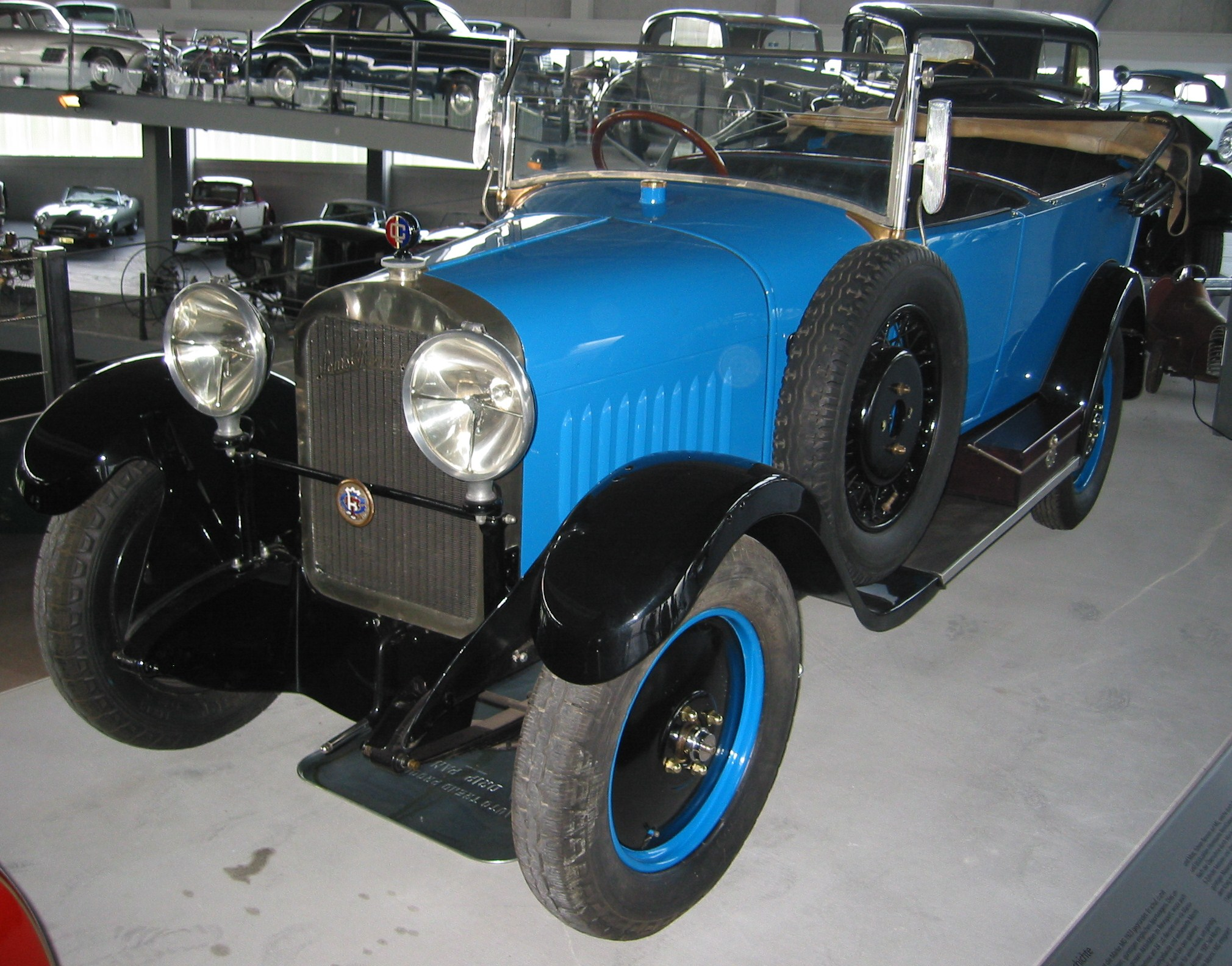 Louis Chenard ca. 1928 (Country of origin: France)